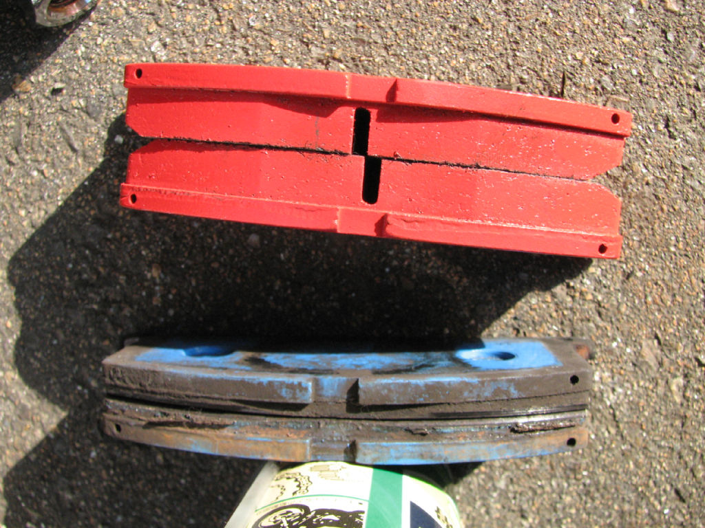 未使用のブレーキパッド（上）と約2年間使ったブレーキパッド（下）。 Brand new brakepads(above) and used fot about 2 years ones.